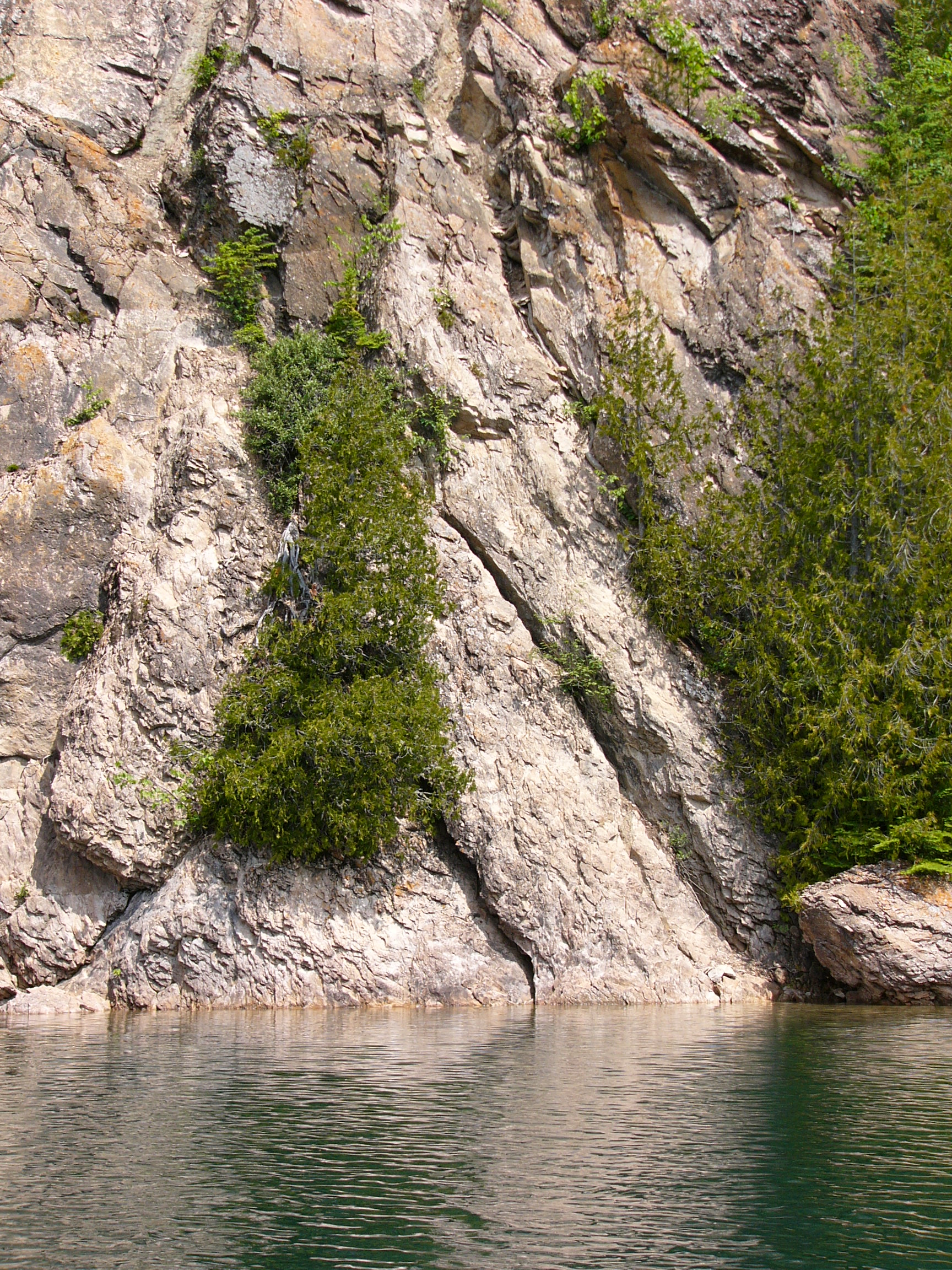 30-foot tall shatter cone located in McGreevy Harbour, Slate Islands, Ontario Canada